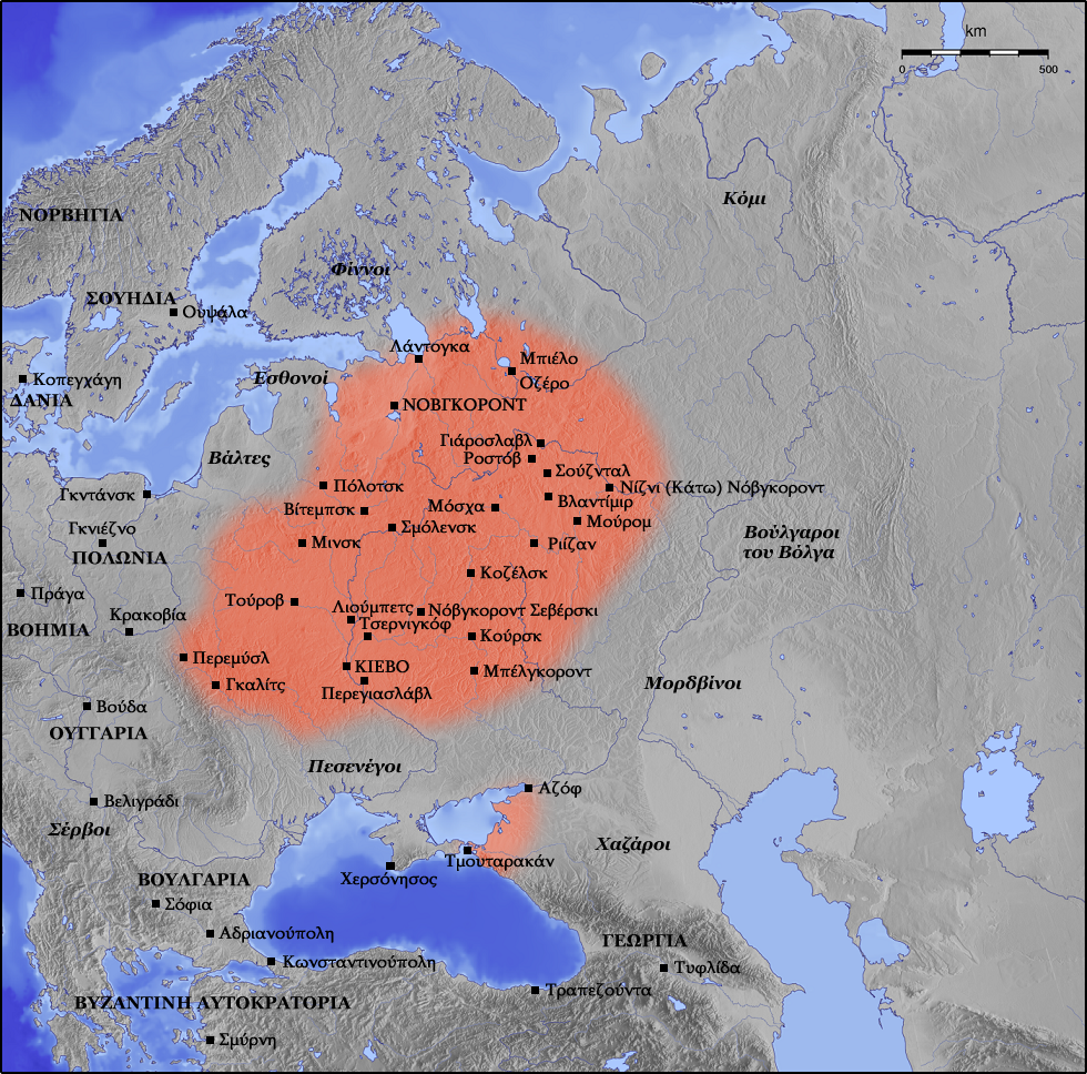 Map of the Kievan Rus in Greek. Used the blank version of Kievan Rus map from Wiki Commons